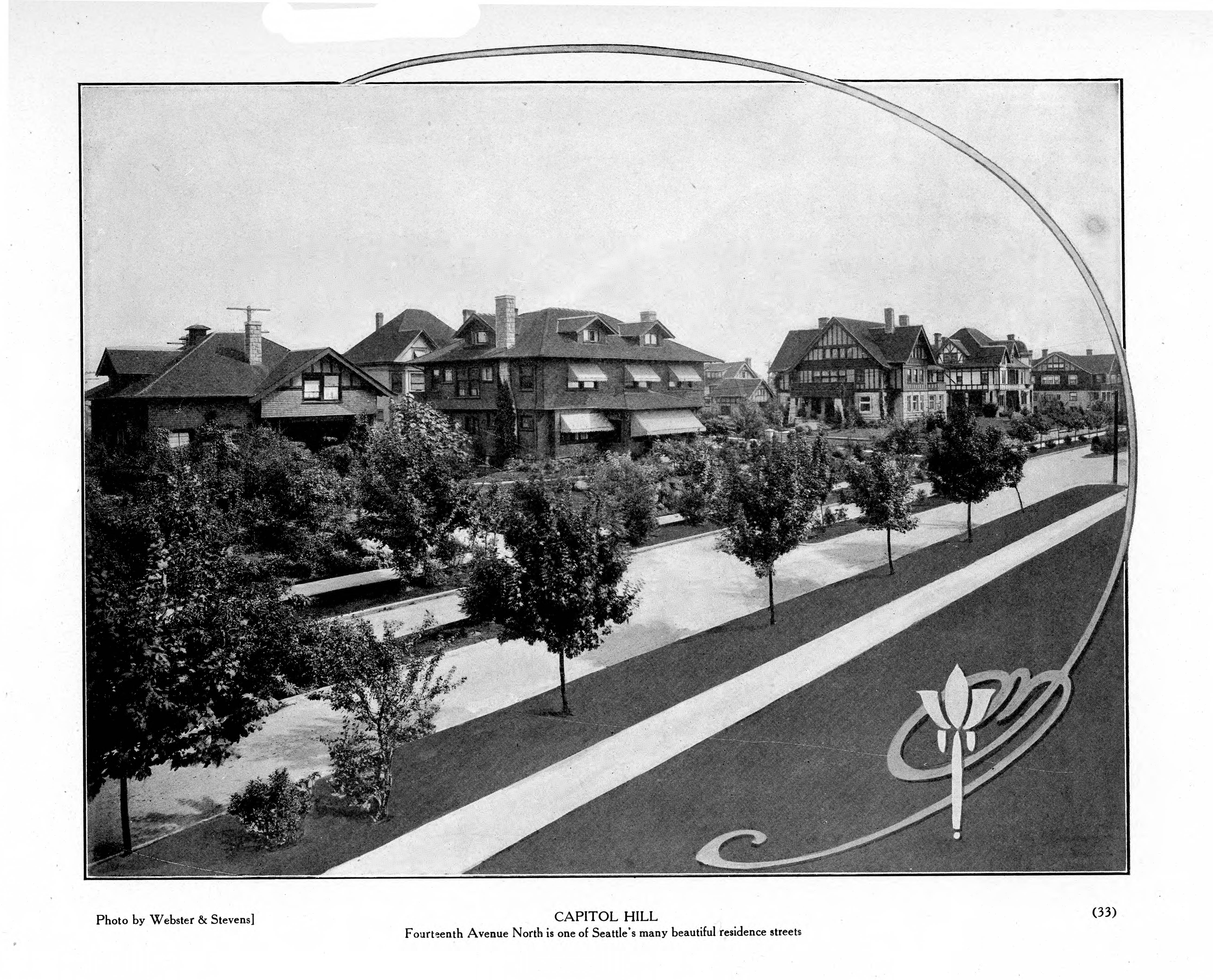 From the materials for the Alaska-Yukon-Pacific Exposition of 1909, held in Seattle. Picture, captioned, "Capitol Hill. Fourteenth Avenue North is one of Seattle's many beautiful residence streets." The street is now Fourteenth Avenue East; this is part of the stretch once known as Millionaire's Row (though the name has faded from use), just south of Volunteer Park. Several of these houses have been either altered or demolished. The view is looking east southeast. This is just of Ward Street; Aloha Street runs between the second and third houses. More from Rob Ketcherside, via FaceBook, paraphrased (and referring both to this photo and, for colors, the one that is thumbnailed here: the house on the far left, 908 14th Ave E, still exists; recognizable back behind the trees. The next to the right, 906 14th Ave E, still exists; 3rd floor/roof has been altered. Across the street is 1409 E Aloha. It is there and unaltered but looks very dark, dirty, not obvious. Beyond that, 804 14th Ave E exists largely unaltered. Next 720 14th Ave E is blue, but may have been mistakenly painted brown in the photo. What looks like a white bottom is actually stone.